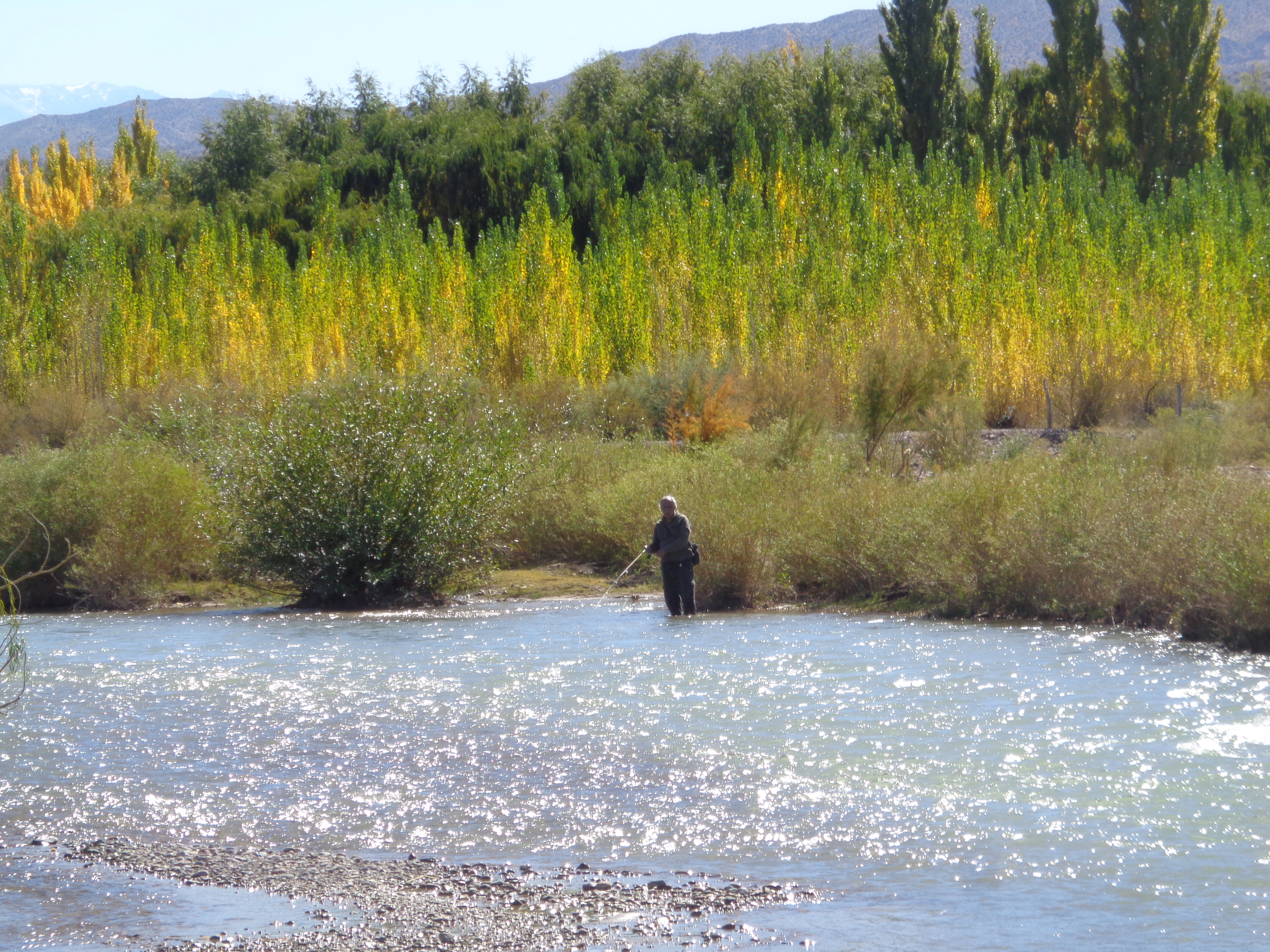 Castaño River